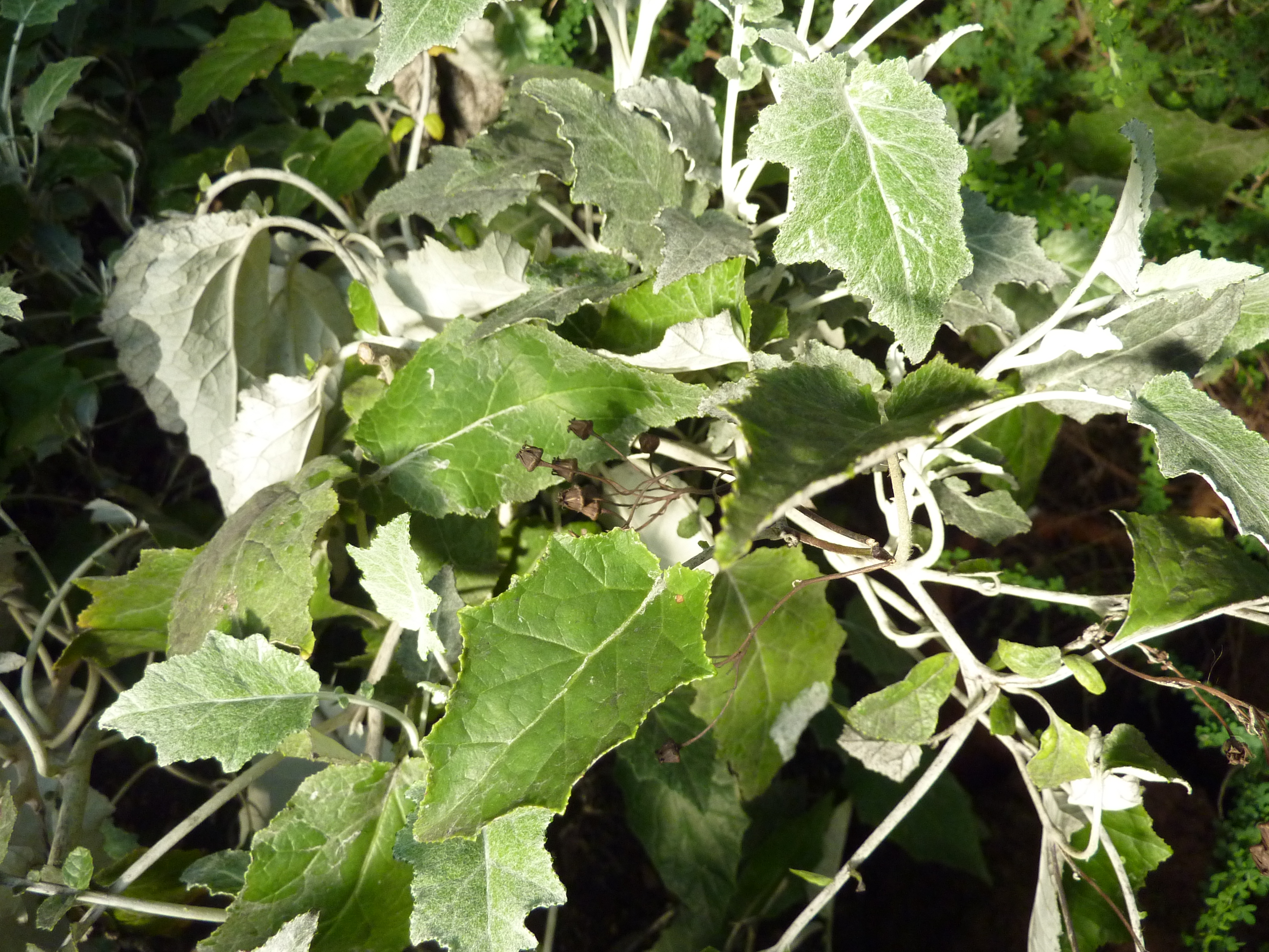 Senecio appendiculatus var. viridis in the Botanical Garden, Berlin